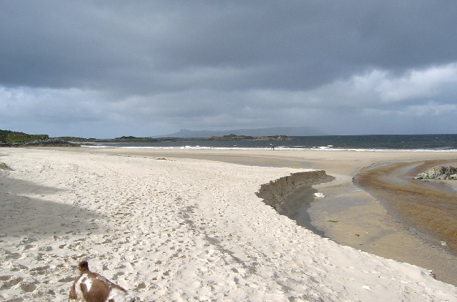 Camusdarach Beach, near Morar. The beautiful white sands of Camusdarach Beach, with the Isle of Eigg in the background. In this photo the beach has been eroded by heavy rain flowing from the nearby burn. This fabulous beach was featured in the film Local Hero.